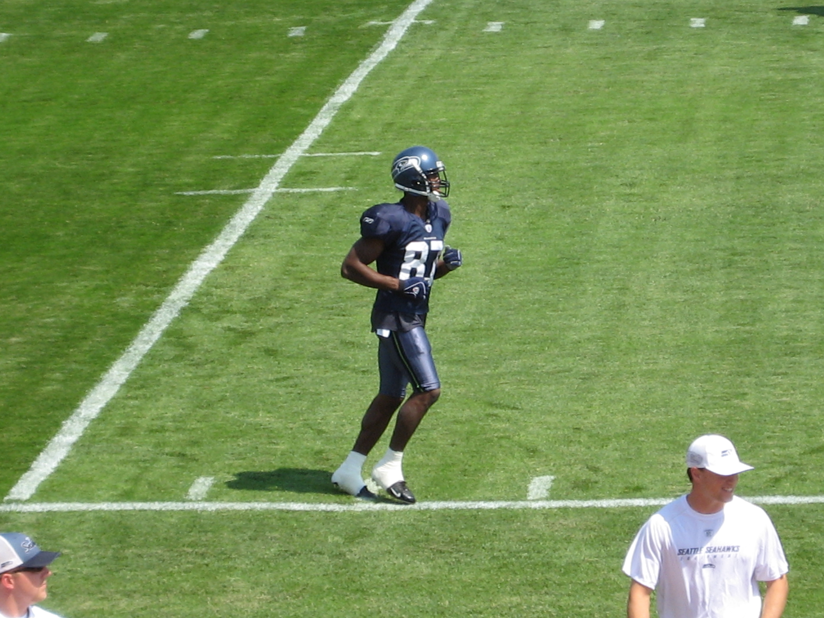 Picture of Seahawks Practice Scrimage at Eastern Washington University, Cheney Washington. Closer picture of Ben Obomanu following a kick return.